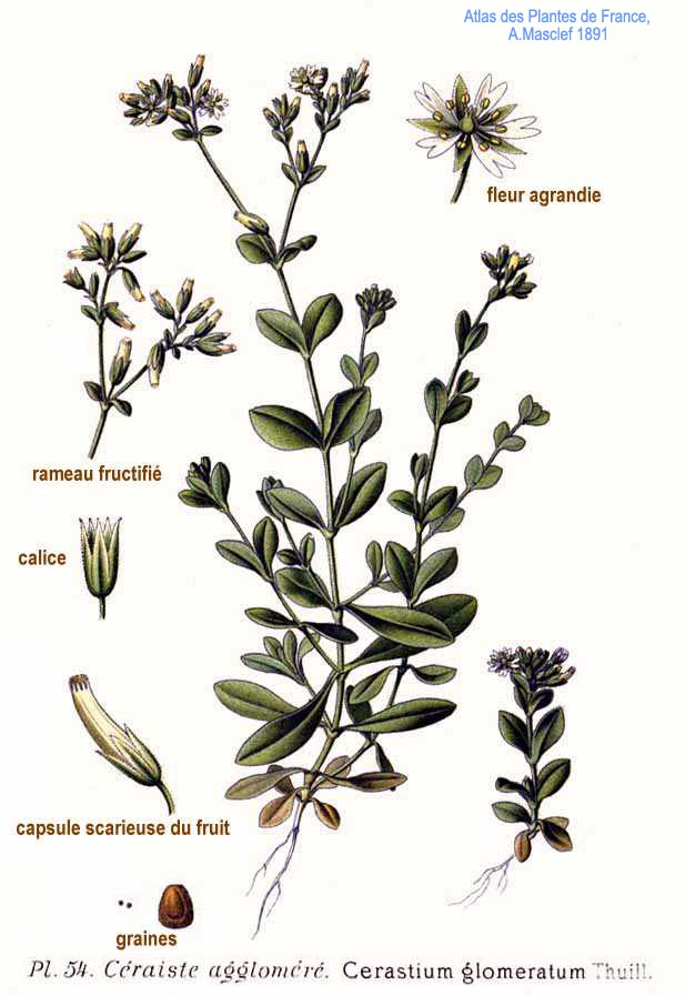 Cerastium glomeratum Thuill.